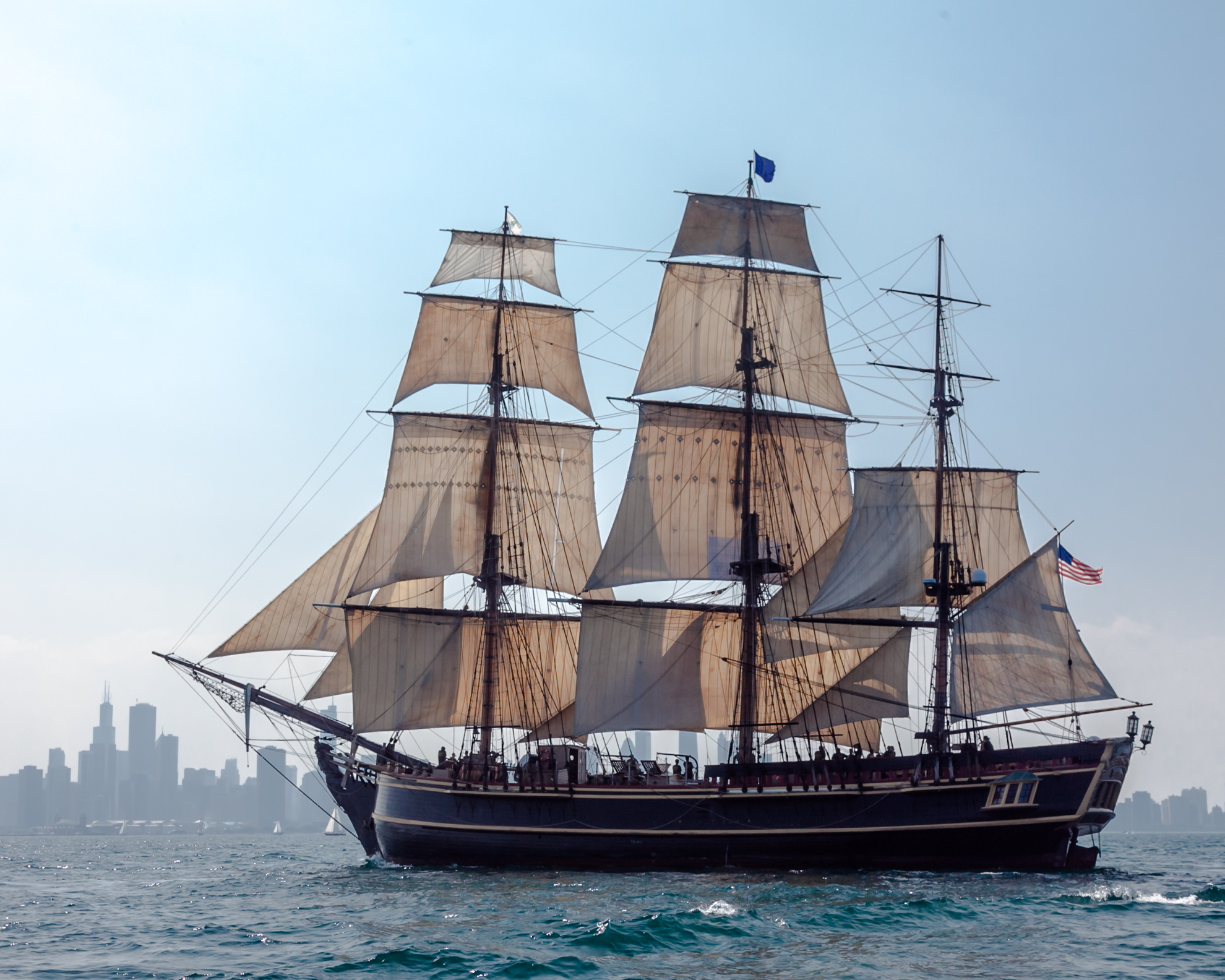 HMS Bounty II with full sails on Lake Michigan near the Port of Chicago for the 2010 Great Lake Tall Ship Challenge. She Sails no more. Strike the Bell slowly....